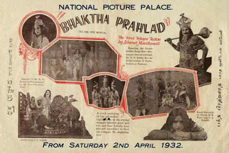 A poster advertising the release of the first Telugu sound film Bhakta Prahlada in National Picture Palace (later renamed as Broadway Talkies)